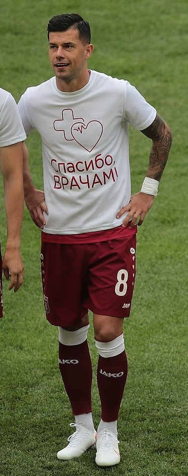 Darko Jevtić with FC Rubin Kazan in a game against FC Lokomotiv Moscow.